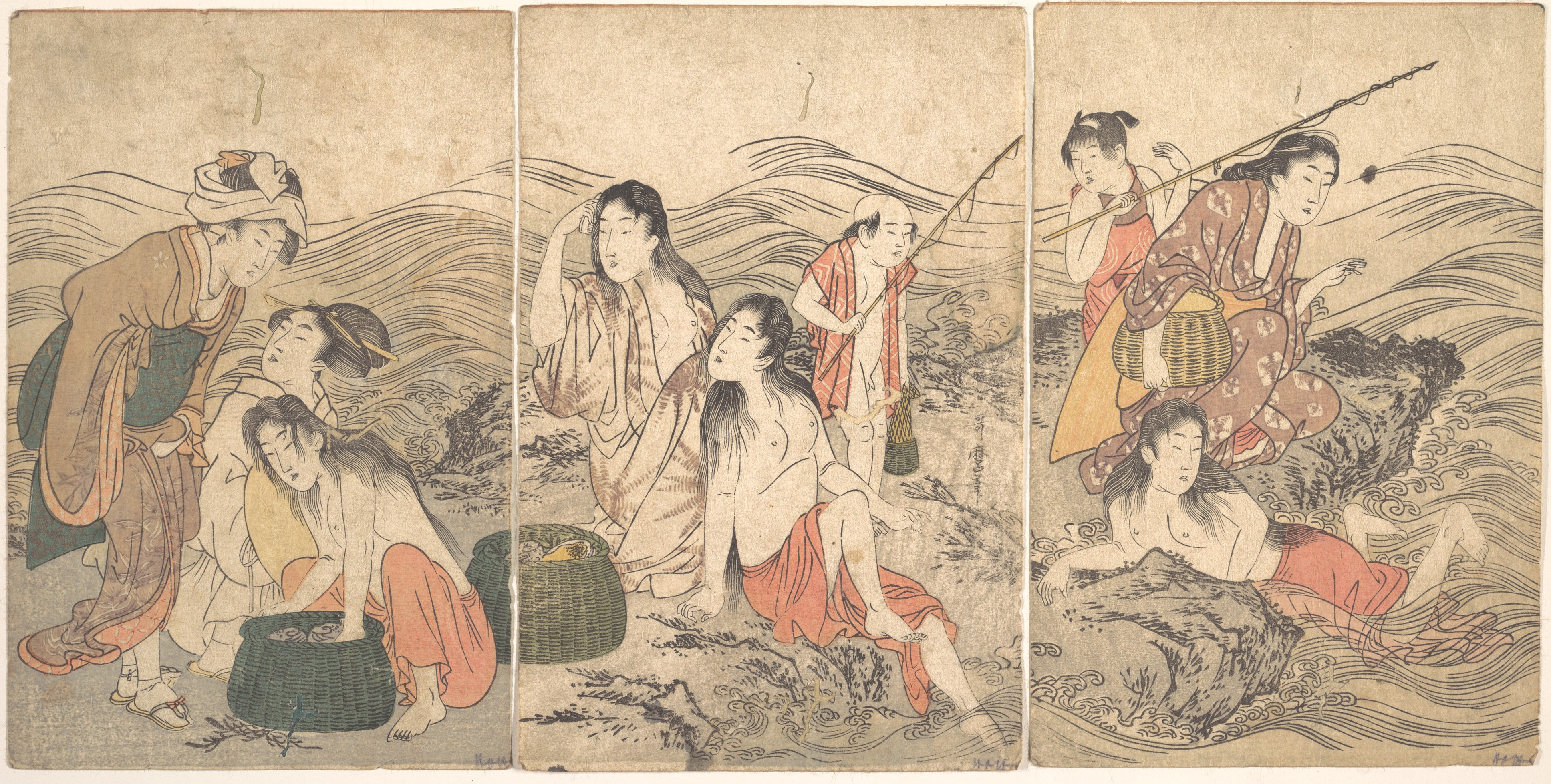 Female Awabi Fisherwomen and Customers - Left three prints of a six-print ukiyo-e set (hexaptych)